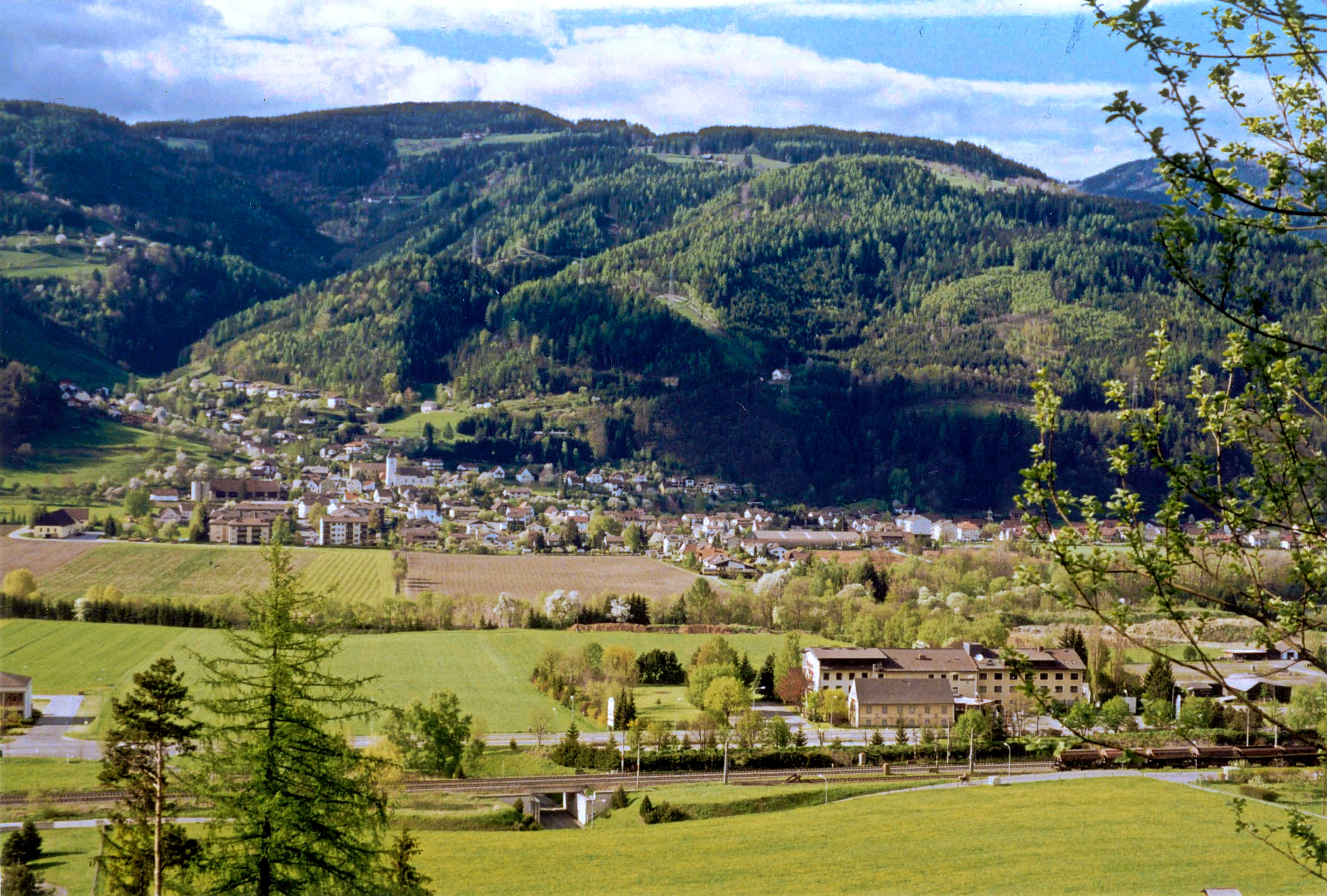 (Most likely a 1998) View of Proleb, a village in the Austrian state of Styria close to Leoben; scanned colour slide.